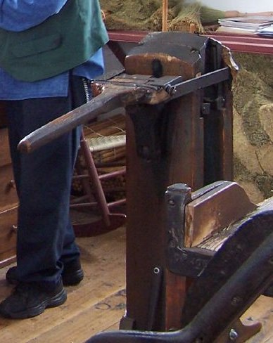 Shaker wooden vice close up - crop of File:Making Shaker brooms.jpg